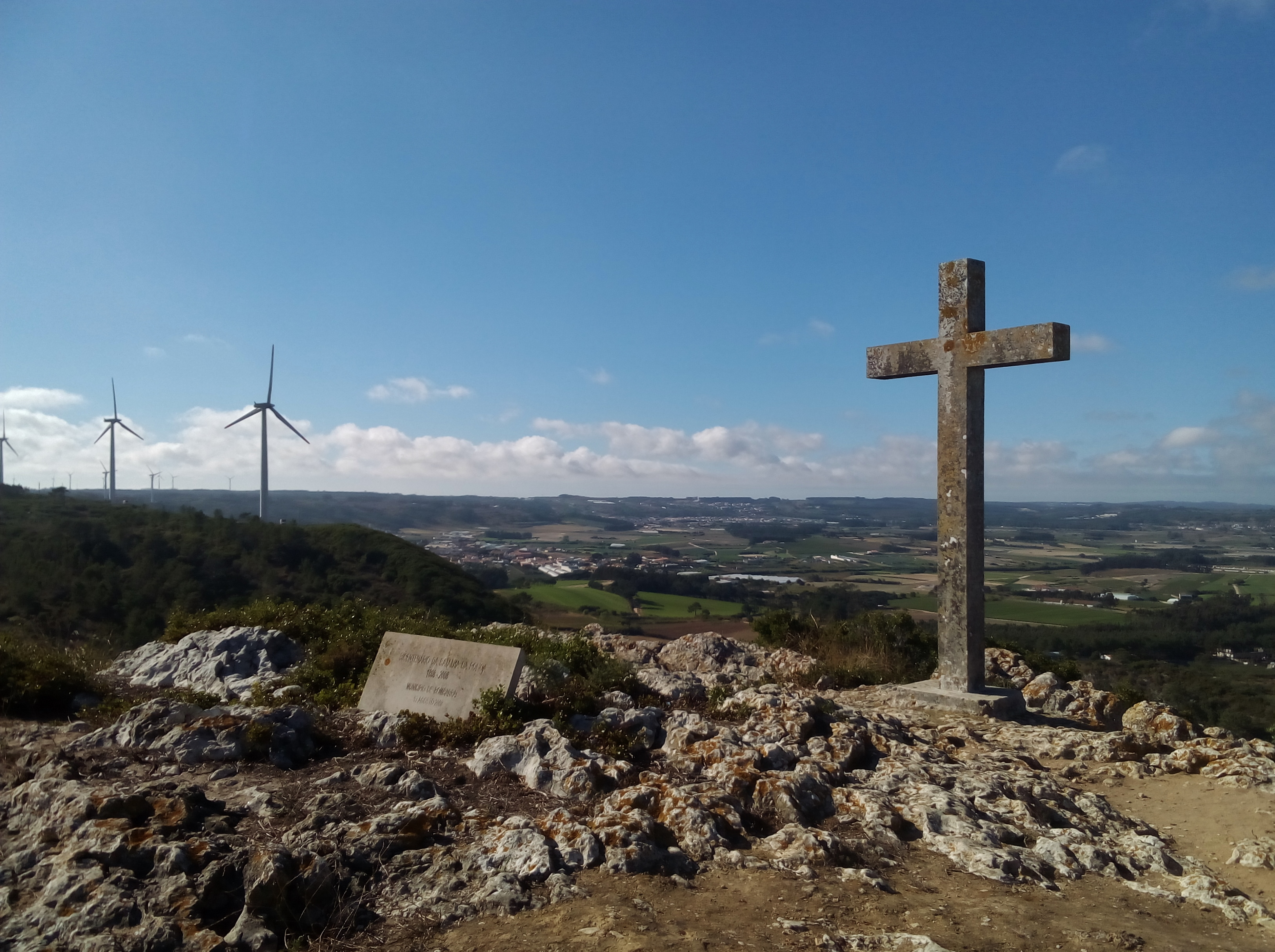 Site of the Battle of Roliça (1808), part of the Peninsular War, photographed in 2017.